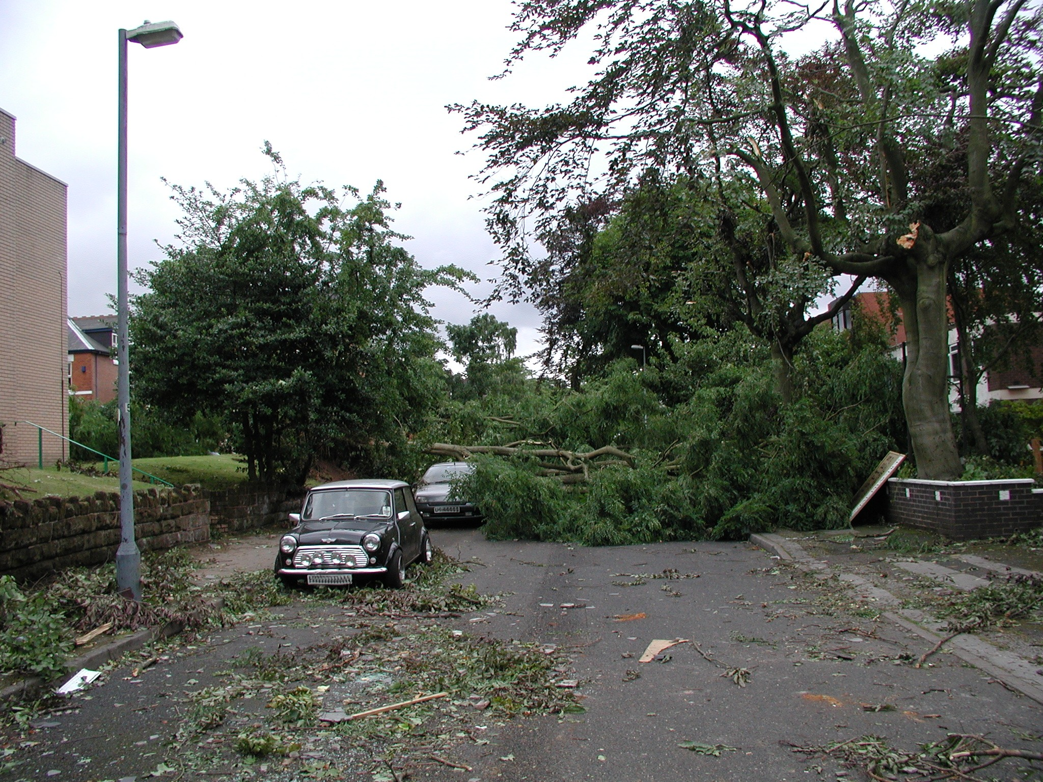 A street in Moseley the day after the Birmingham Tornado of 28 July 2005.